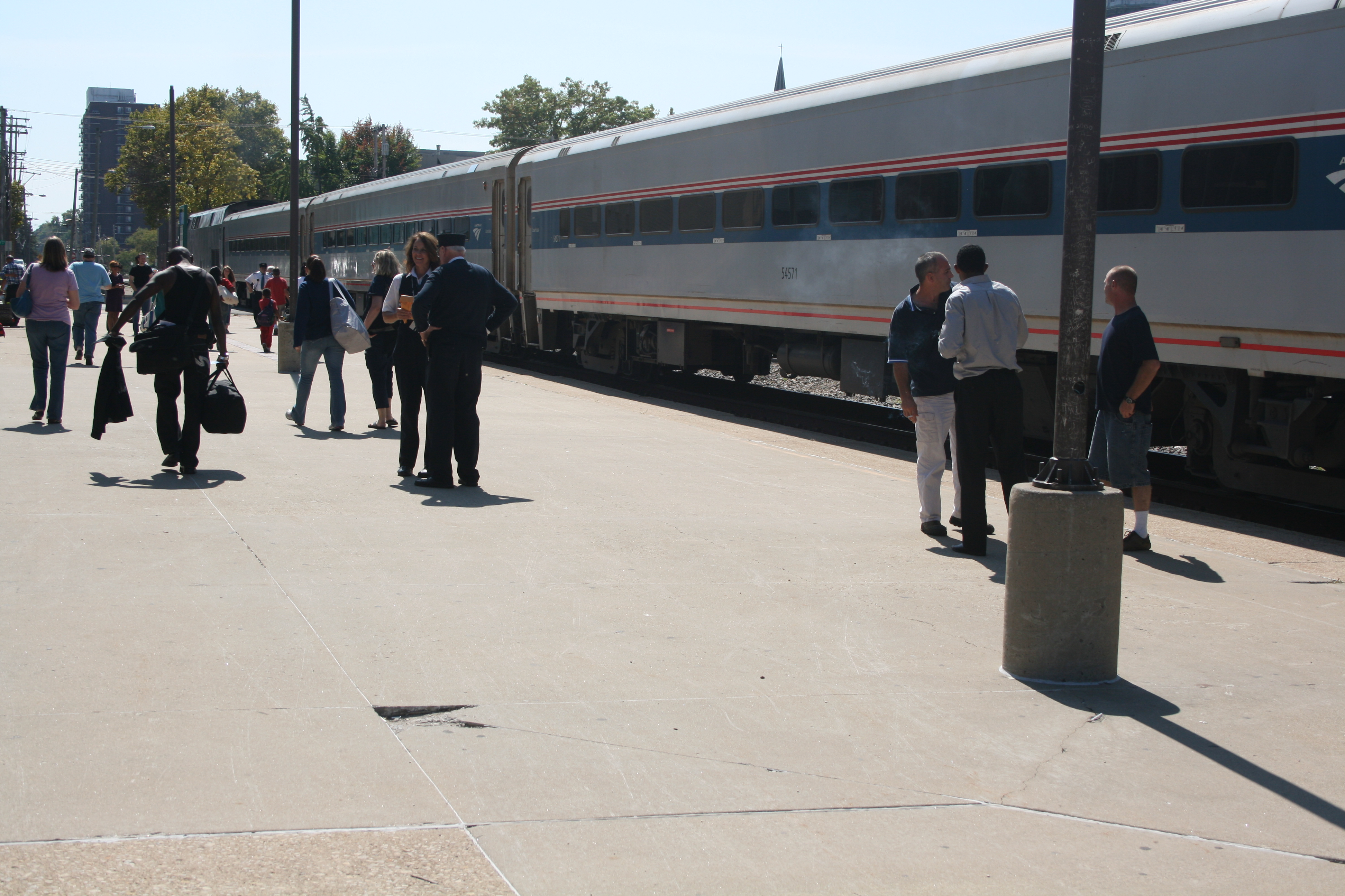 Passengers board and unboard the Lincoln Service Amtrak train bound for St. Louis.